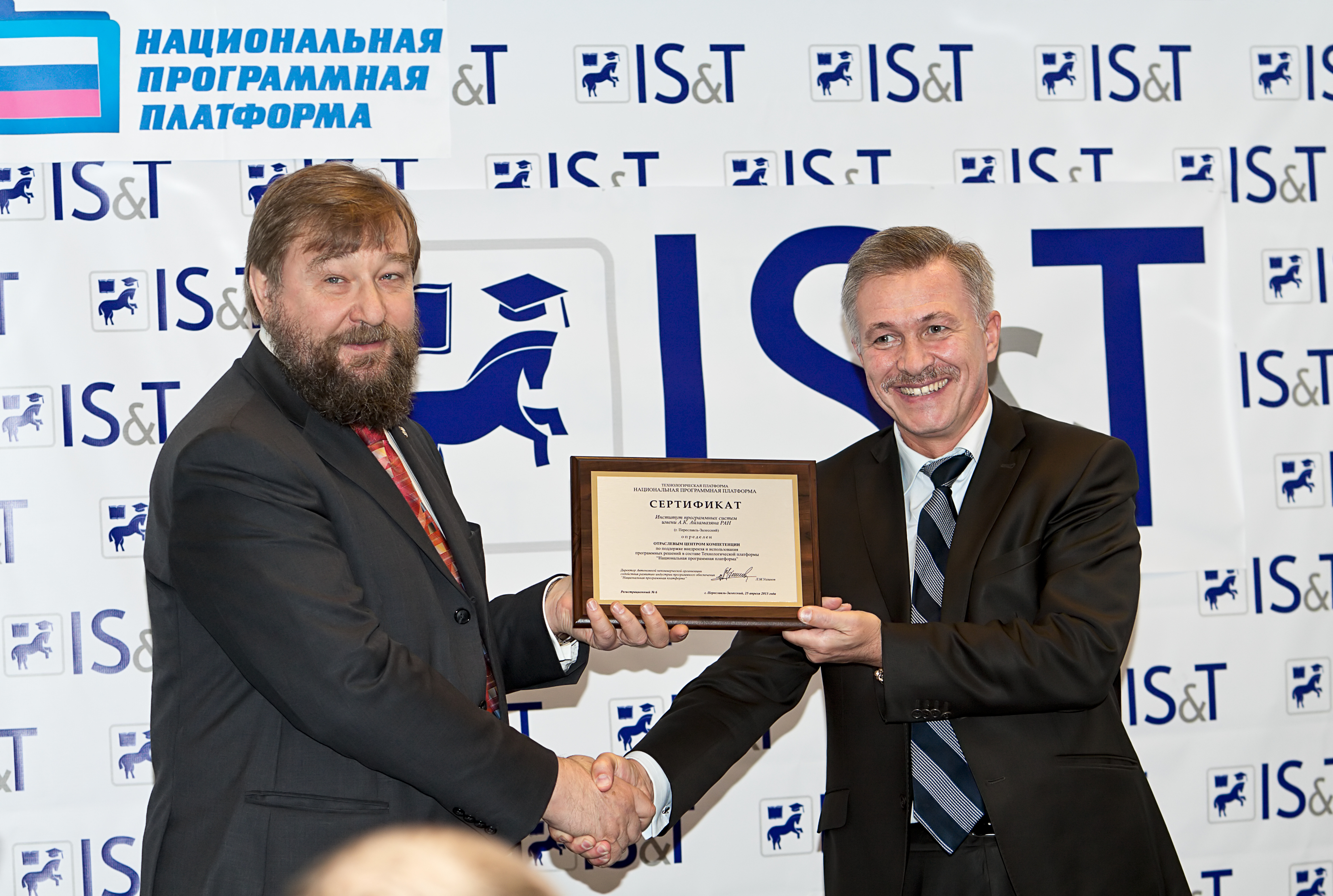 Sergey Mikhailovich Abramov (25.03.1957) — Russian mathematician, Professor, Doctor of Physico-Mathematical Sciences (1995), corresponding member of the Russian Academy of Sciences for the Department of Information Technology and Computer Systems (25.05.2006), director of the Program Systems Institute named after A. K. Ailamazyan (2005), rector of the University of Pereslavl named after A. K. Ailamazyan (2003).